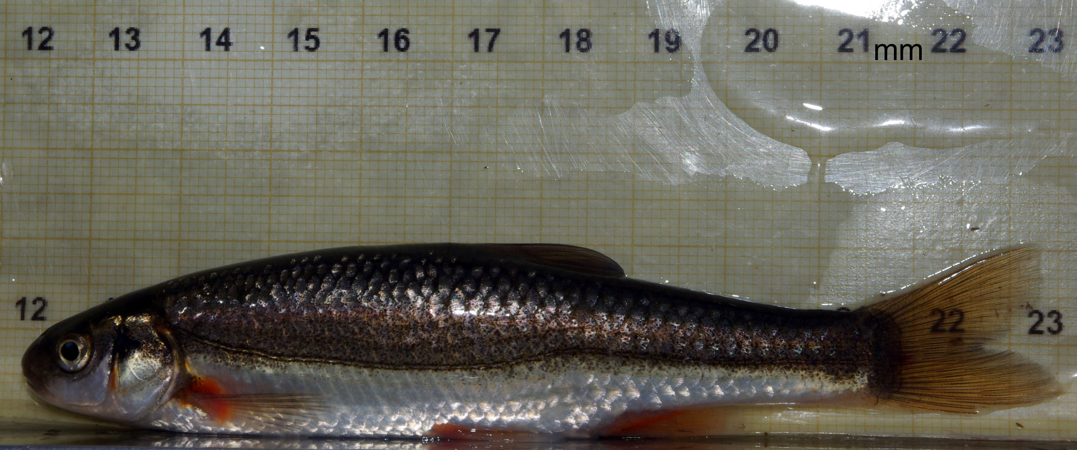 Achondrostoma arcasii. River Douro, Soria (Spain)